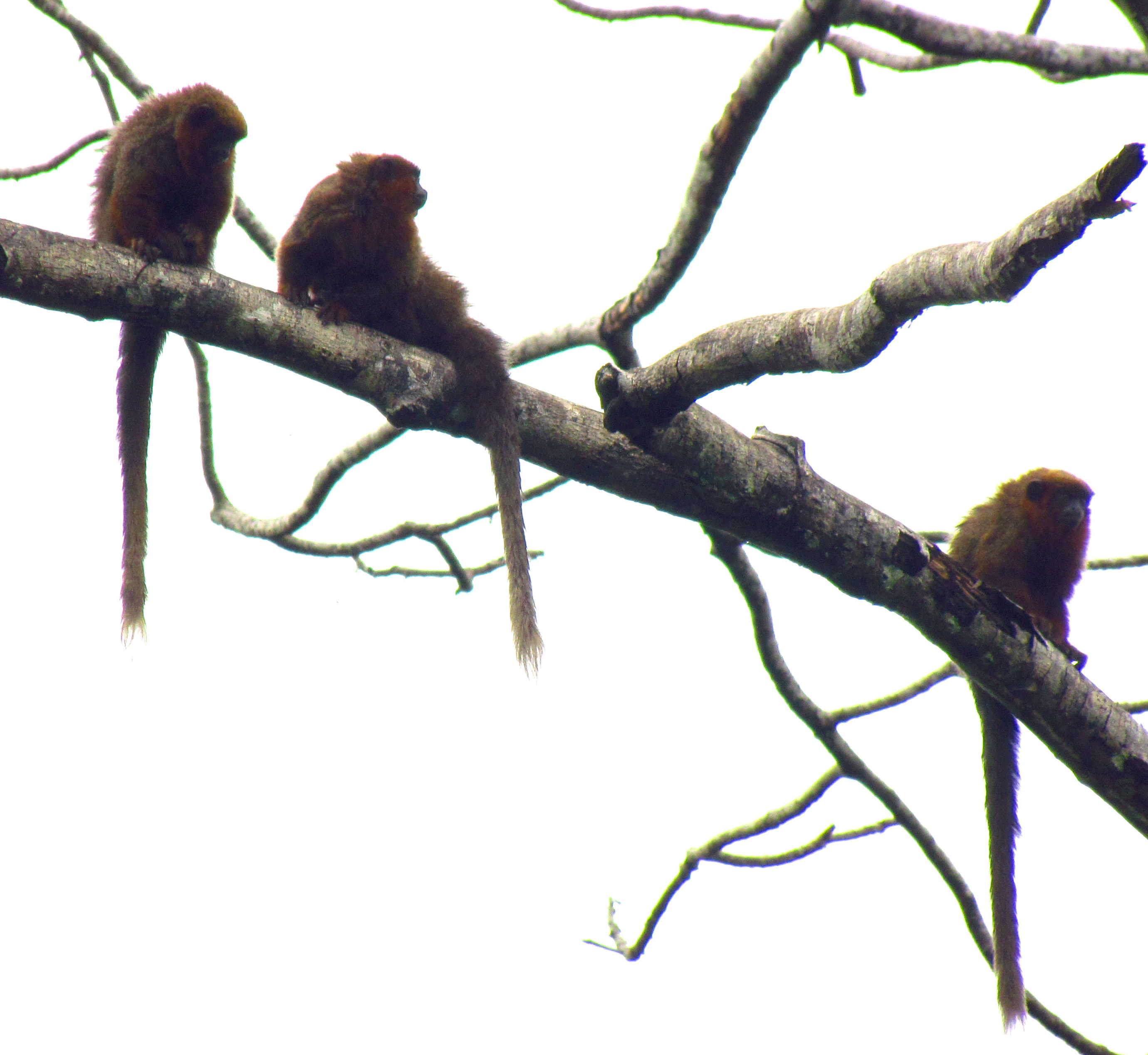 Brown Titi Monkeys (Callicebus brunneus), Tambopata Park, Peru